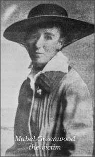 Mabel Greenwood, putative victim of Harold Greenwood (solicitor)